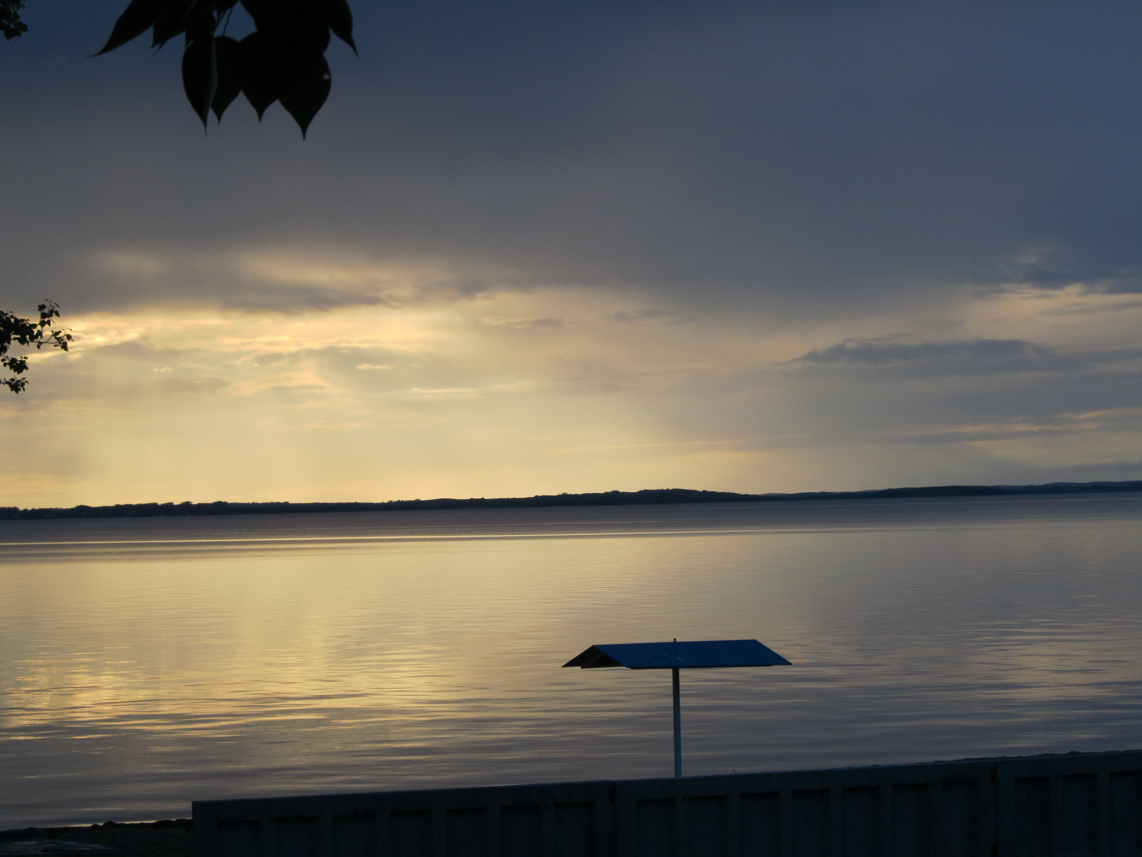 Near sunset on a tranquil night at Jackfish Lake.